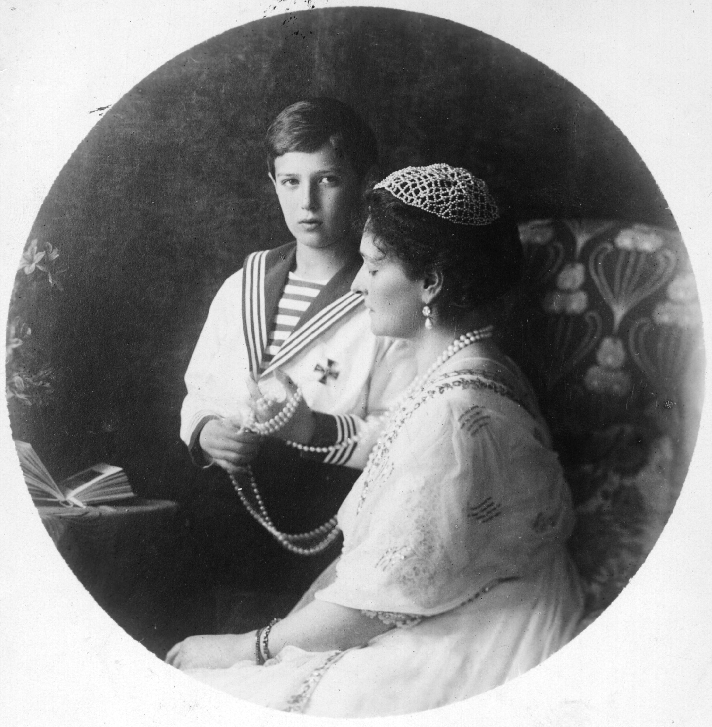 Empress Alexandra Feodorovna, wife of Emperor Nicholas II, and her son the Tsarevich who is playing with her pearls. (Photo by Hulton Archive/Getty Images).